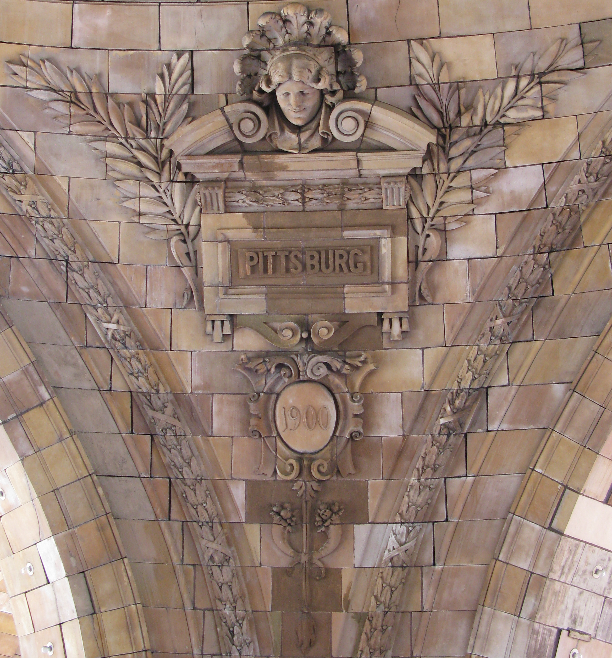 Photo of the inside of the rotunda of the Pittsburgh Union Station Rotunda, illustrating the spelling of Pittsburgh at the time it was built as "Pittsburg".